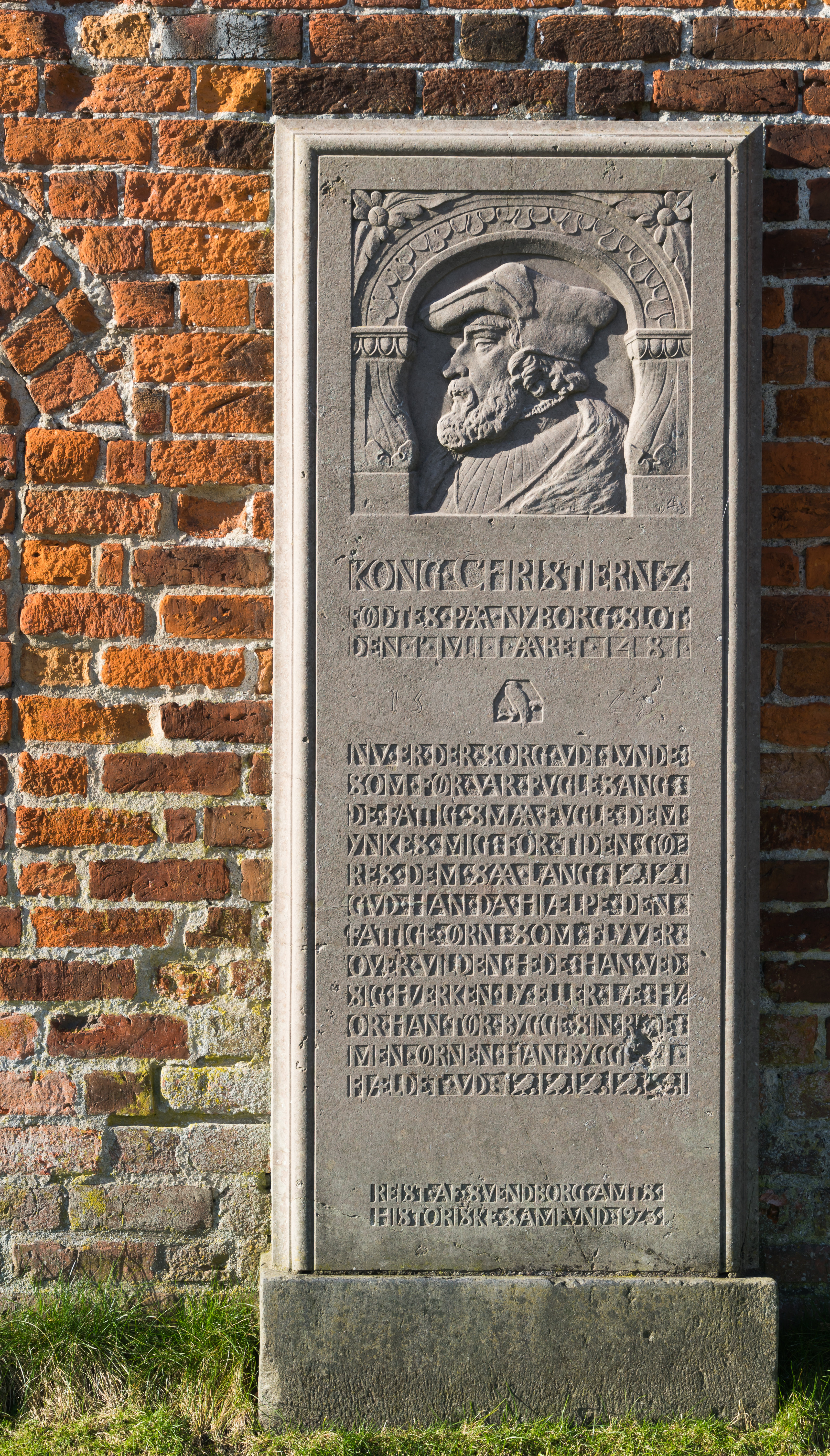 Tribute plaque to king Christian II od Denmark, Norway and Sweden, Nyborg slot (where he was born in 1481), Funen, Denmark.